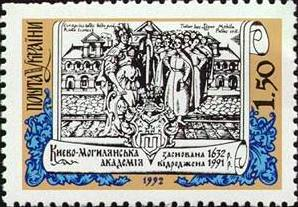 Stamp of Ukraine